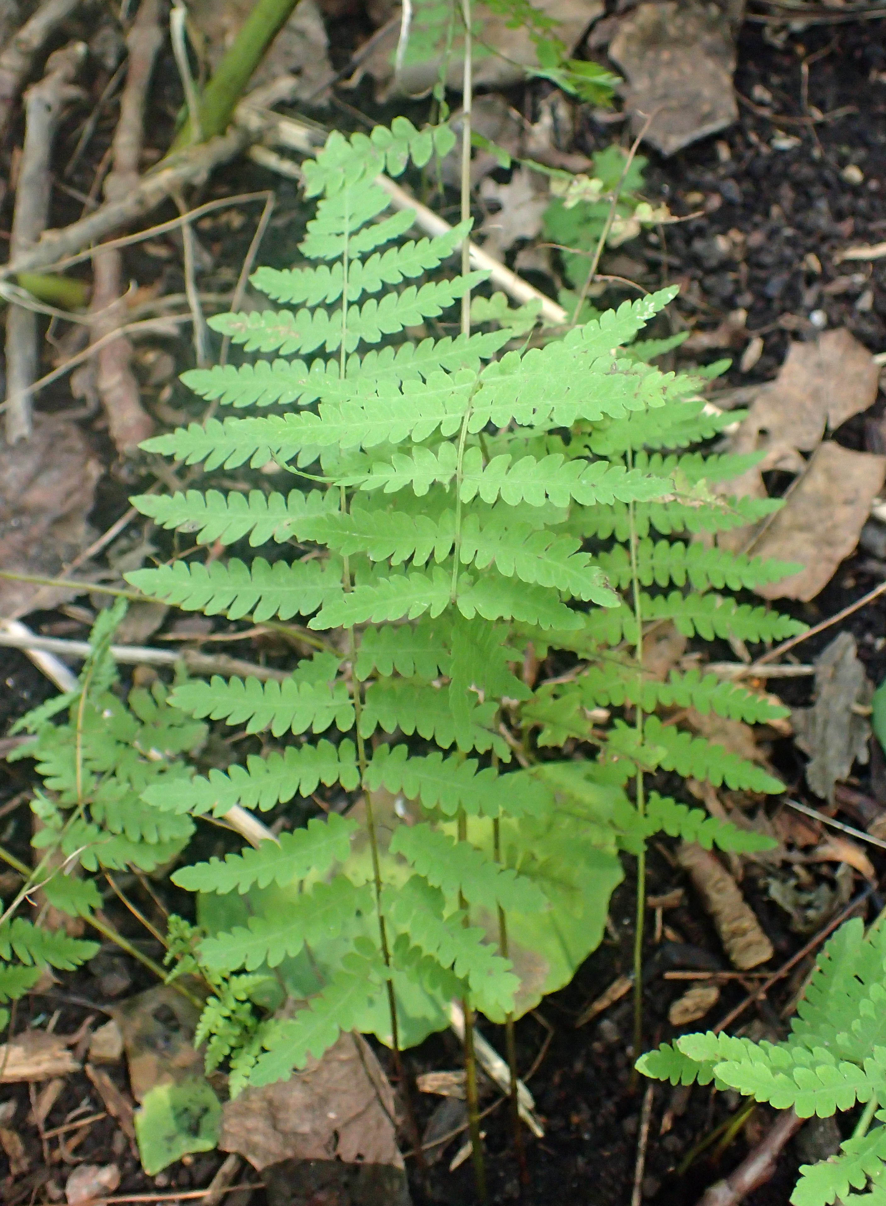 Thelypteris confluens in the Missouri Botanical Garden, St. Louis